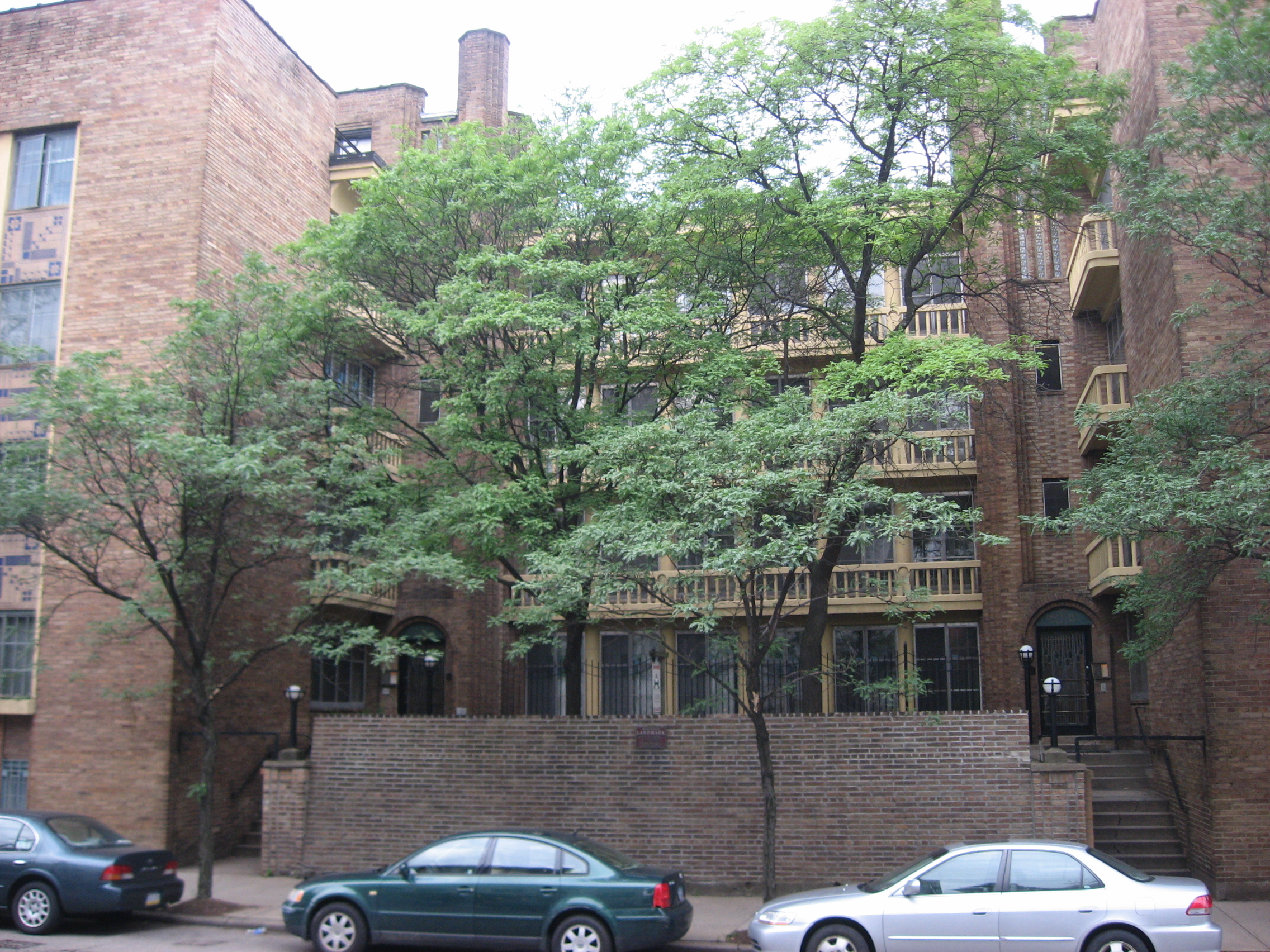 View of the Highland Towers Apartments, a National Register of Historic Places site in the Shadyside neighborhood of Pittsburgh, Pennsylvania, United States. Address 340 S. Highland Ave.